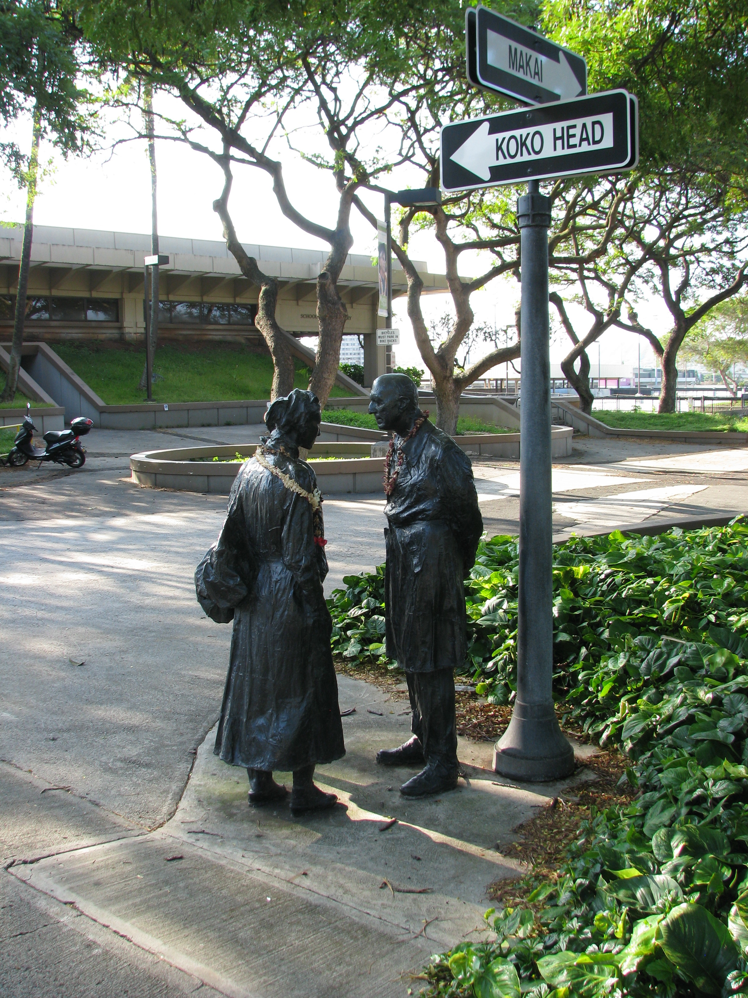 William S. Richardson School of Law, Street View, Law Library To Left